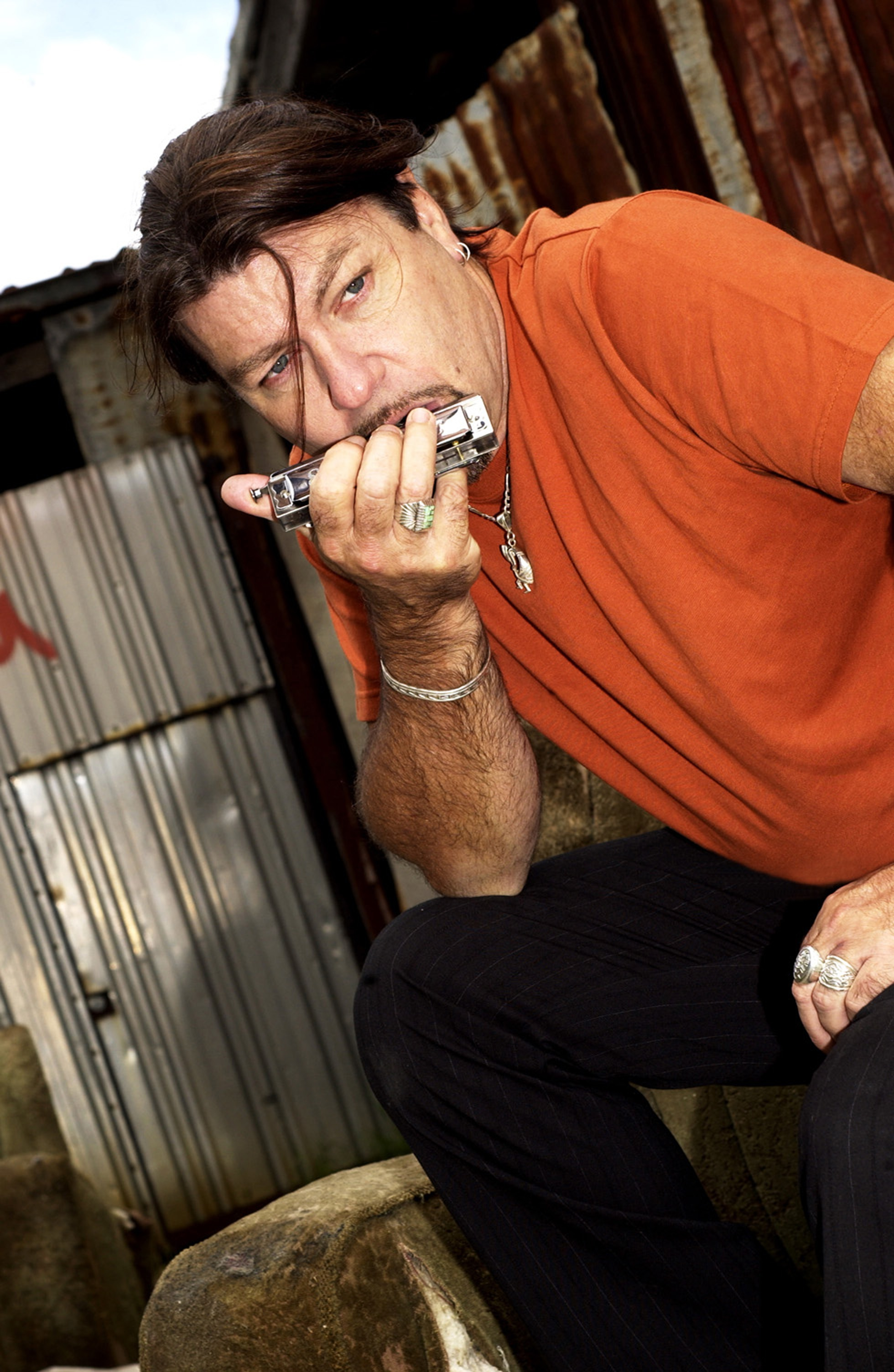 Peter D Harper, Harmonica, from 2005 Down To The Rhythm CD